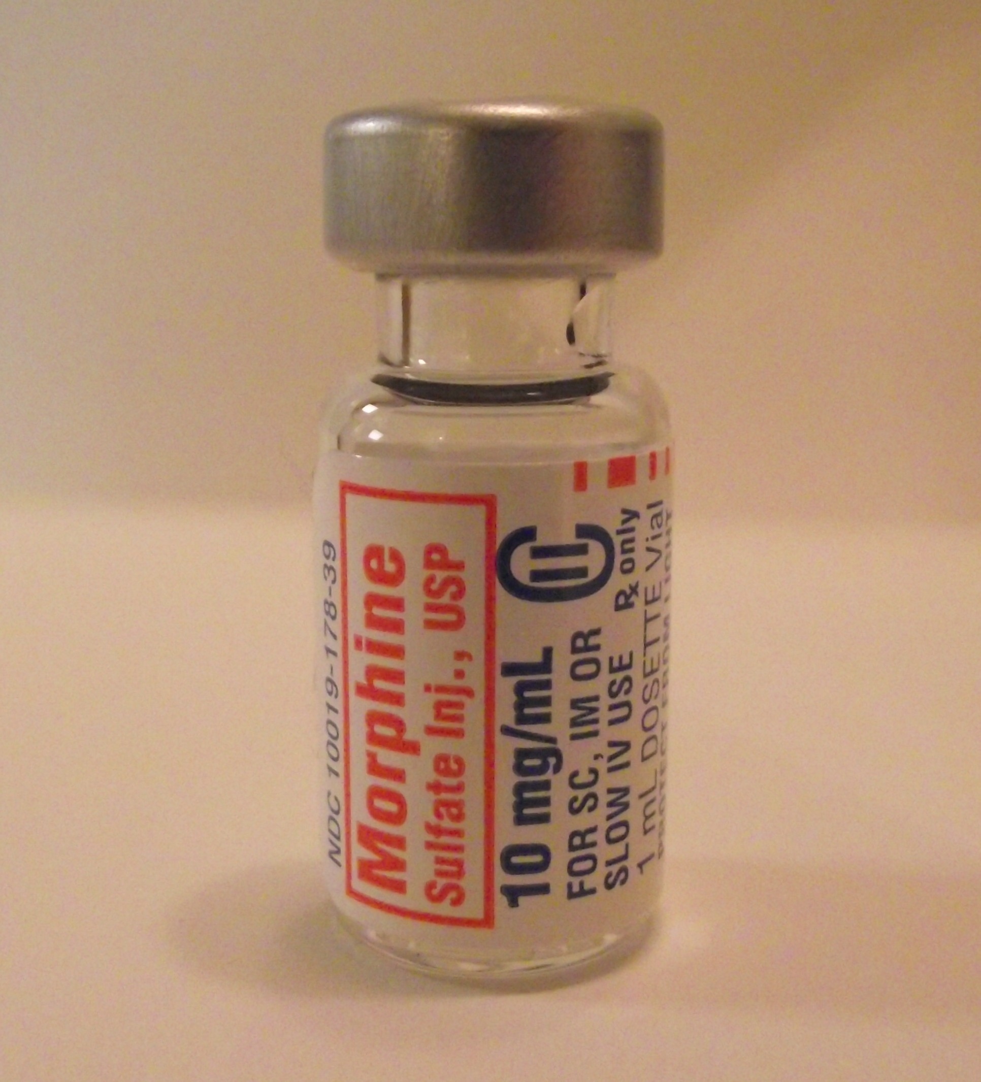 Empty vial, morphine 10 mg/mL. United States.